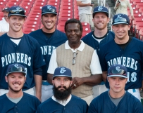 LCBL All-Star Game players with Cardinals Lou Brock